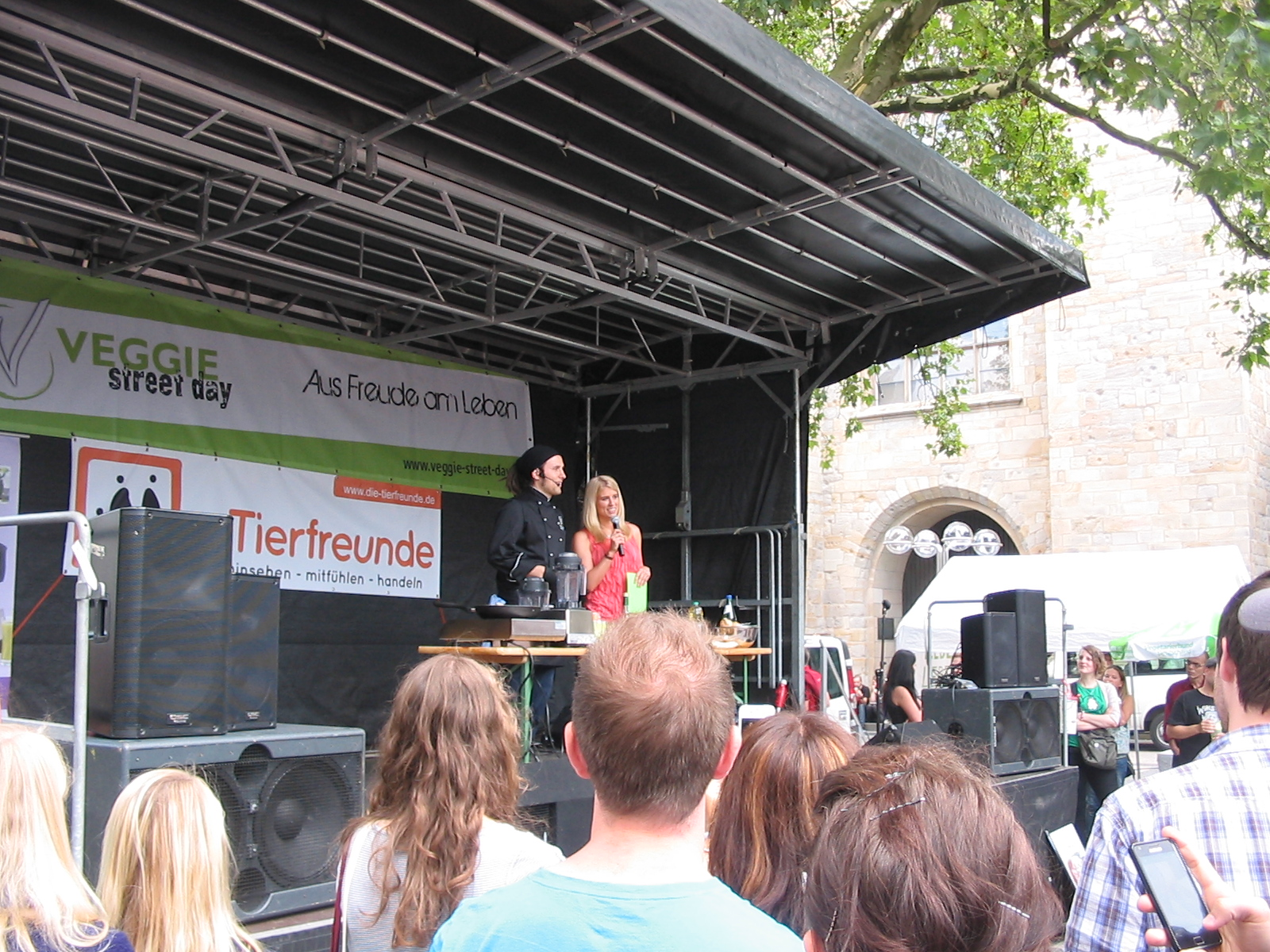 Vegan cook Björn Moschinski cooks at Veggie Street Day in Dortmund 2012.